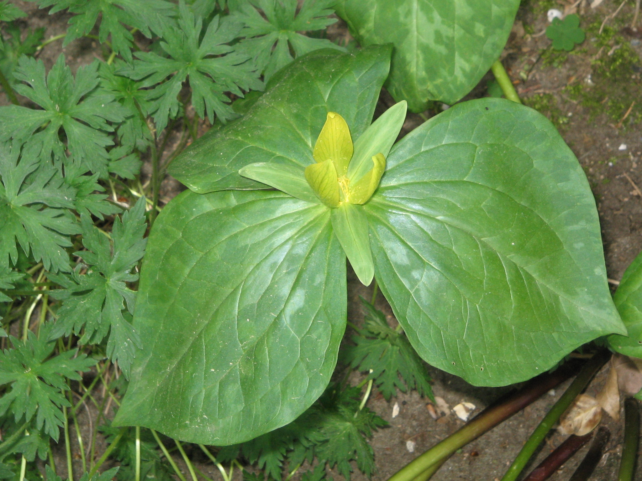 Trillium luteum